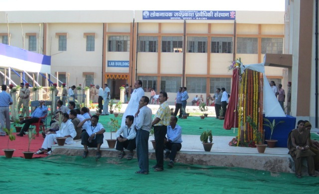 Loknayak Jai Prakash Institute Of Technology is Government Engineering College Based in Chhapra District of Bihar.